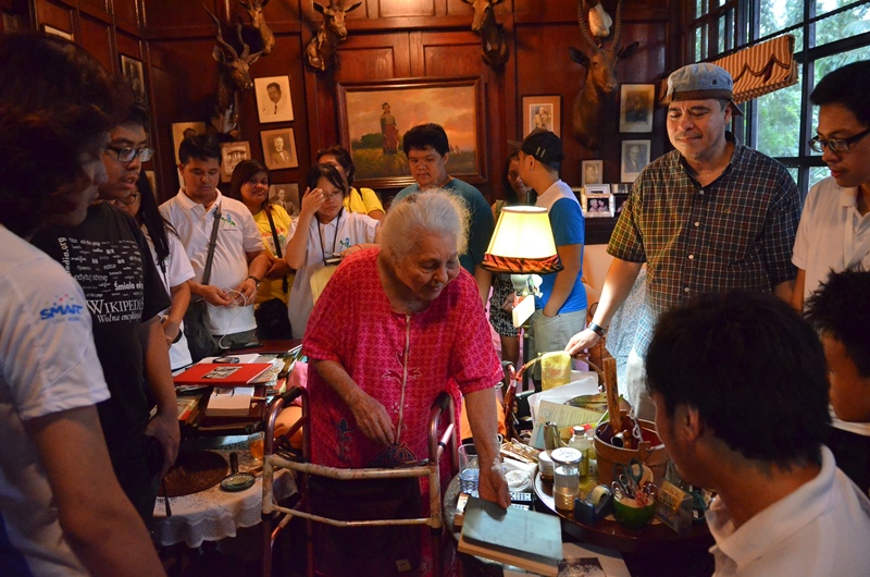 WikiExpedition: Santa Ana 045